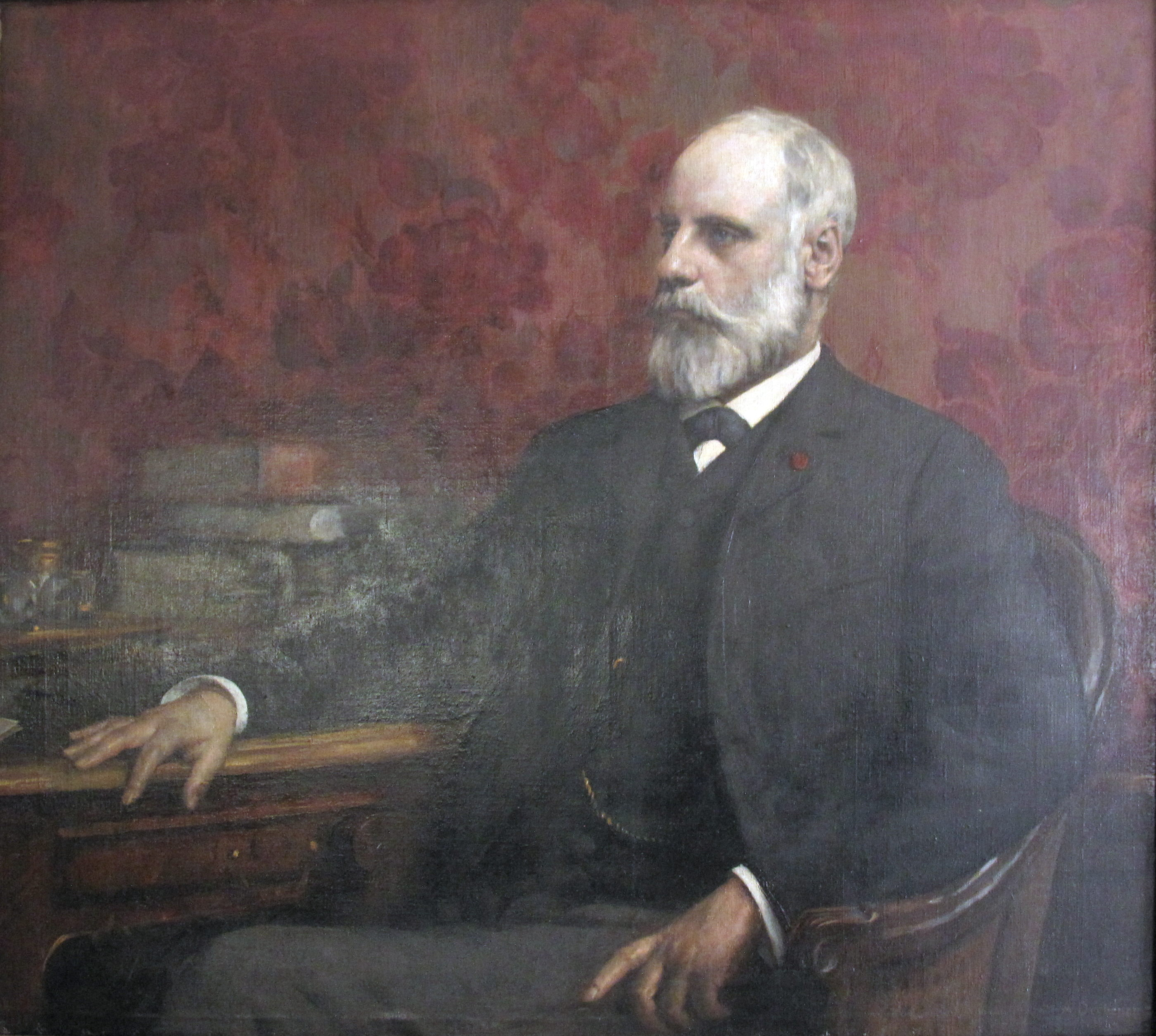 Portrait of Cyprien Fabre, presient of the Chamber of commerce of Marseille